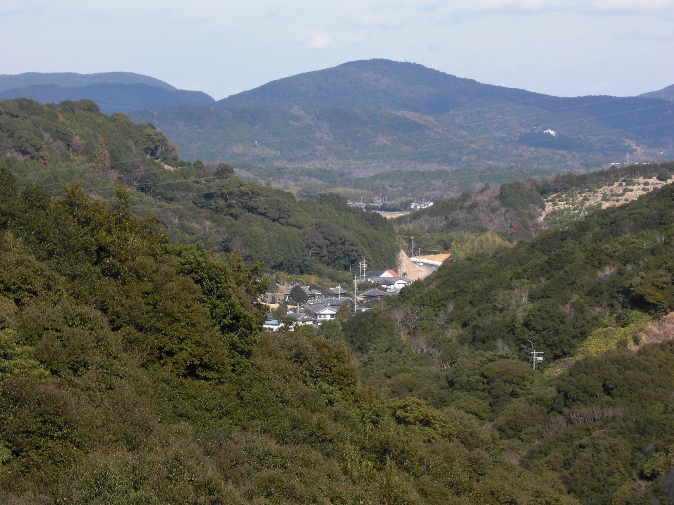 This is a landscape of Isobecho-Hiyama, Shima, Mie, Japan.